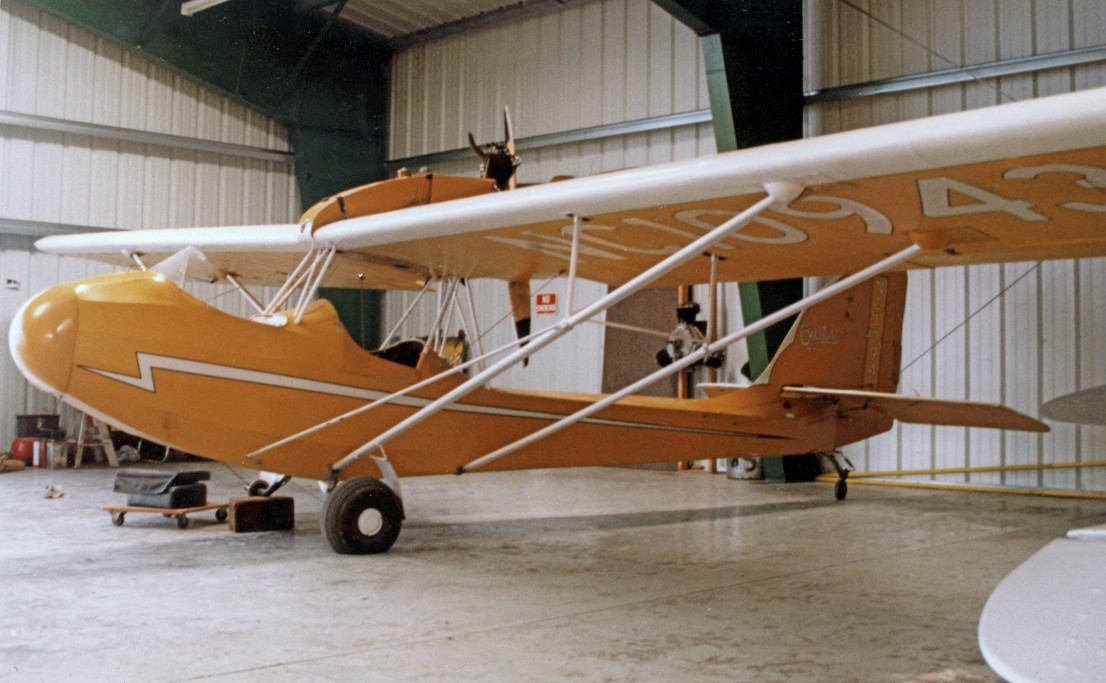 Curtiss-Wright CW-1 Junior NC10943 built in 1931 at Carson City Airport Nevada